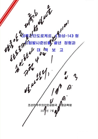 Kim Jong-un's written order for the first test fire of the intercontinental ballistic missile Hwasong 14, which took place on 4 July 2017 The text content is "당중앙은 대륙간 탄도로케트 시험발사를 승인한다. 7월 4일 오전 9시에 발사할 것! - 김정은 2017. 7. 3".